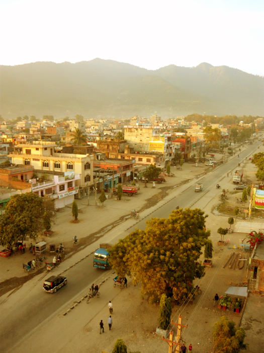 View of downtown Butwal